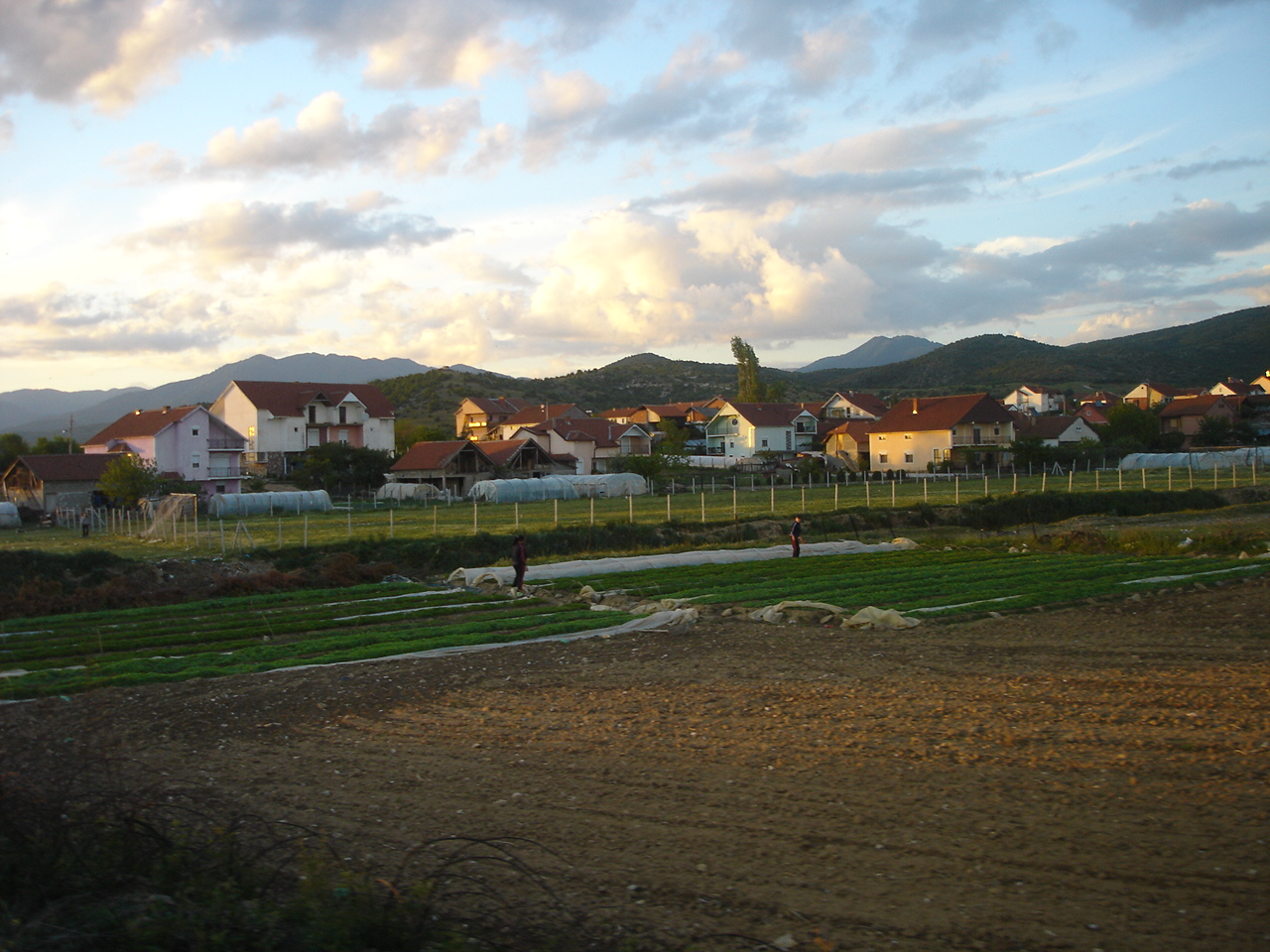 village of Jargulica, near Radoviš, Macedonia